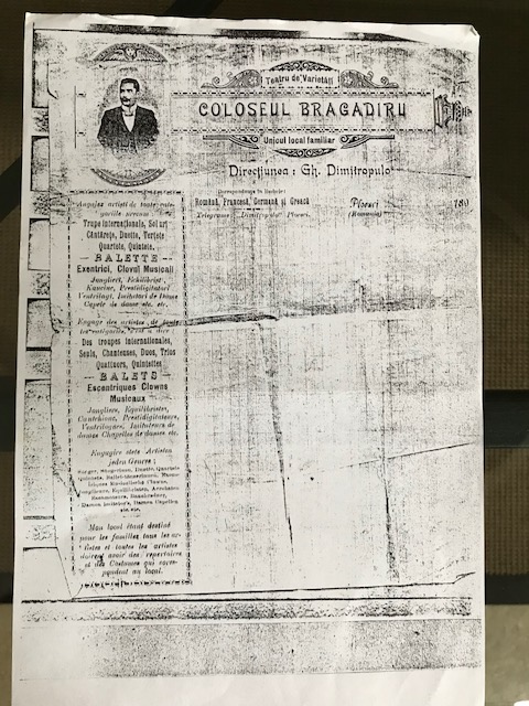 Coloseul Brigadiru Marketing Brochure